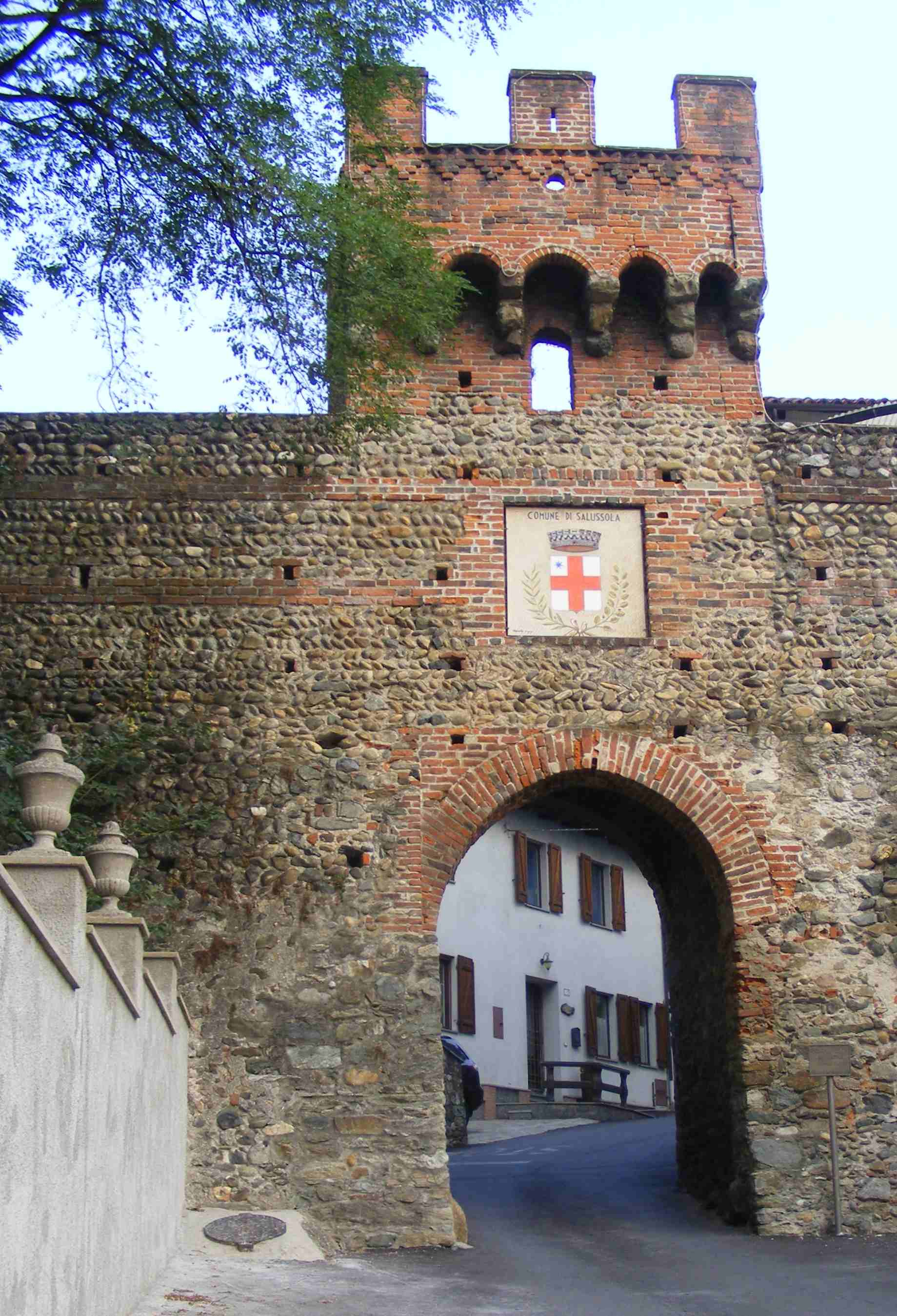 Salussola (BI, Italy): the ancient town gate